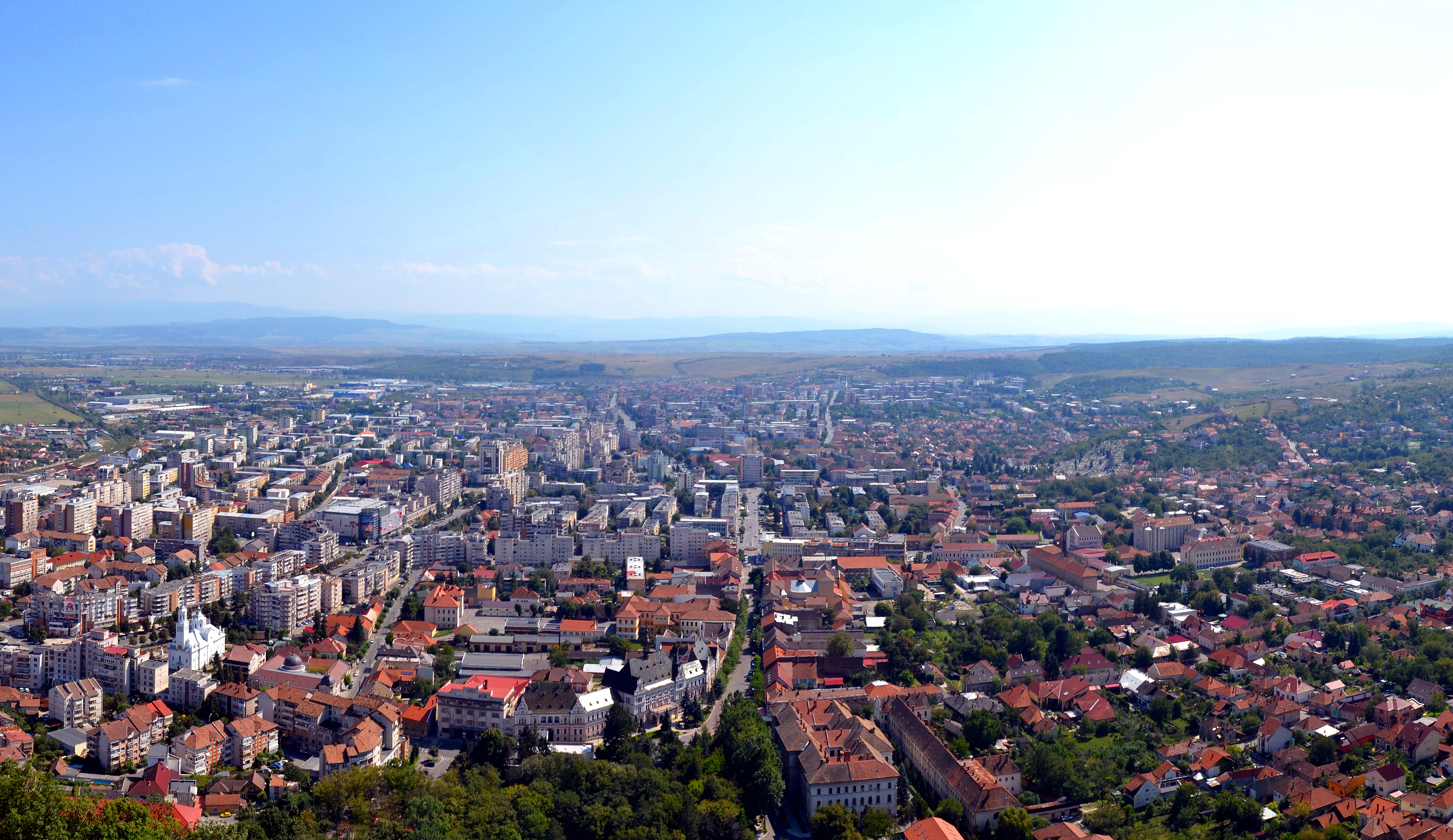 View of the city of Deva, County of Hunedoara, Romania, from the citadel hill.